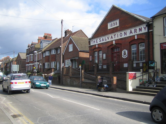 Chesham: The Salvation Army Hall, Broad Street. Viewed looking northwards up Broad Street, with Chesham Police Station just visible at the left.